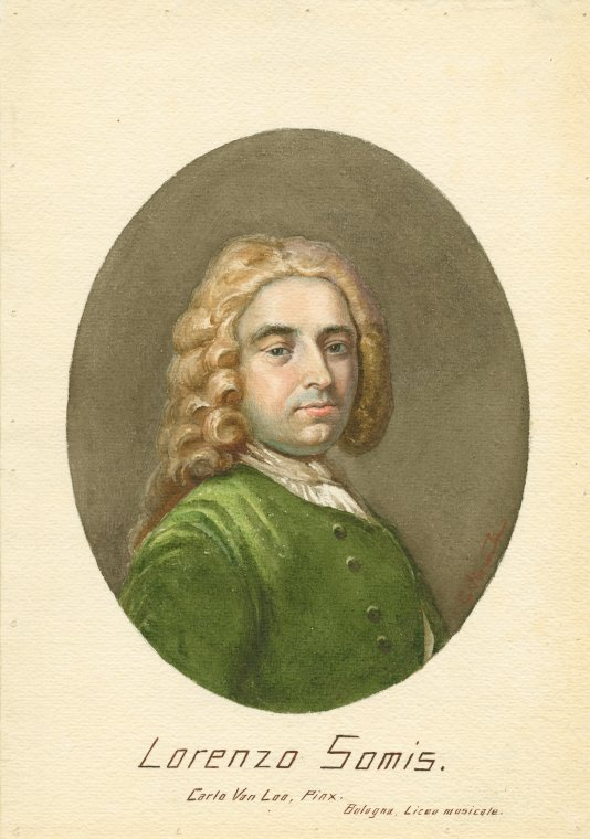 Depicted person: Lorenzo Somis